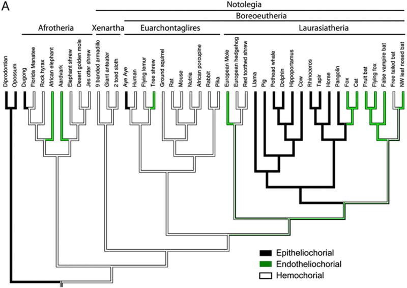 The evolution of the placental interface in terms of degree of invasiveness of the placental tissue into maternal tissue, with epitheliochorial being the least invasive and hemochorial being most invasive.